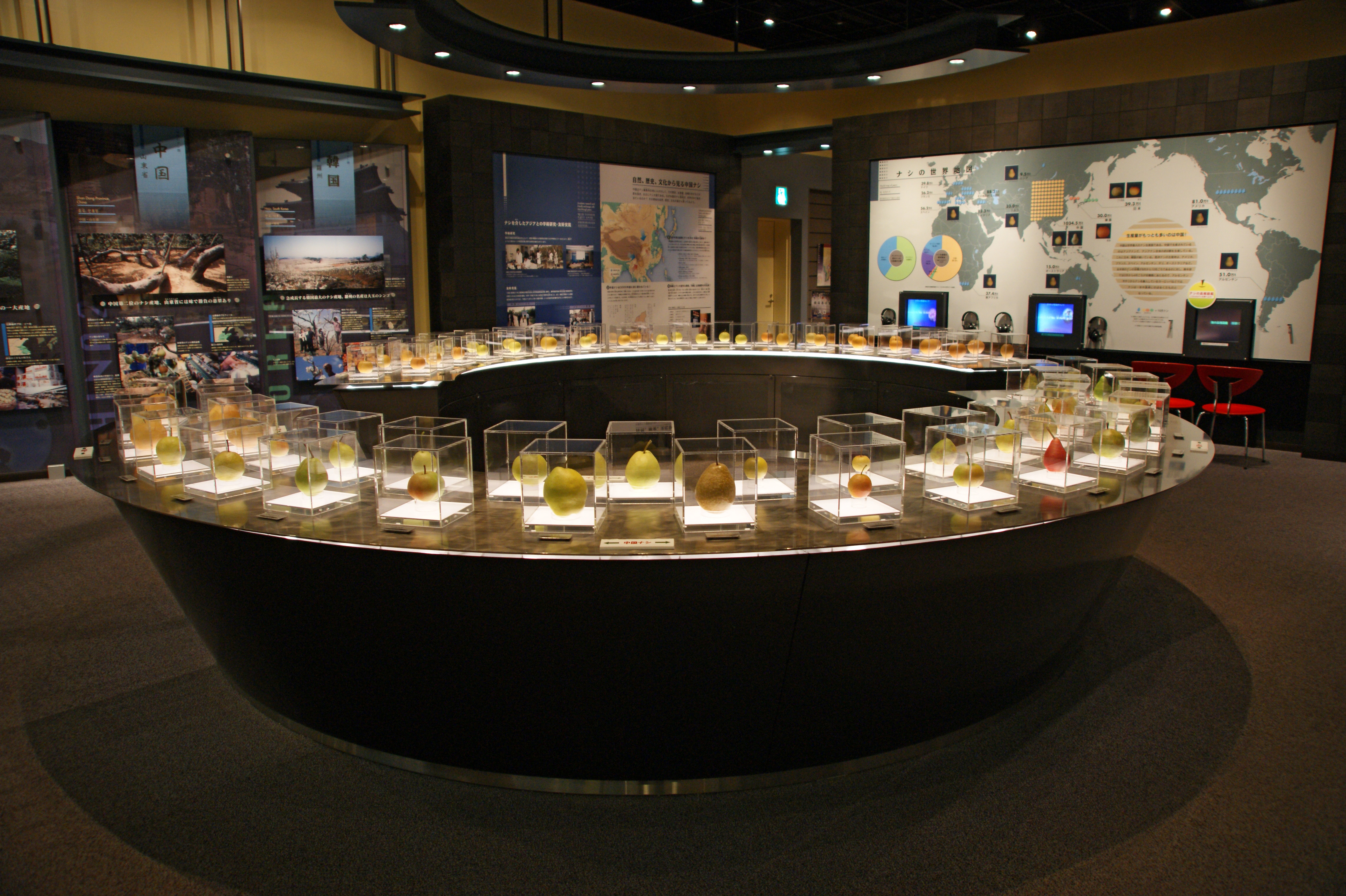 Tottori Nijisseiki Pear Museum in Kurayoshi, Tottori prefecture, Japan